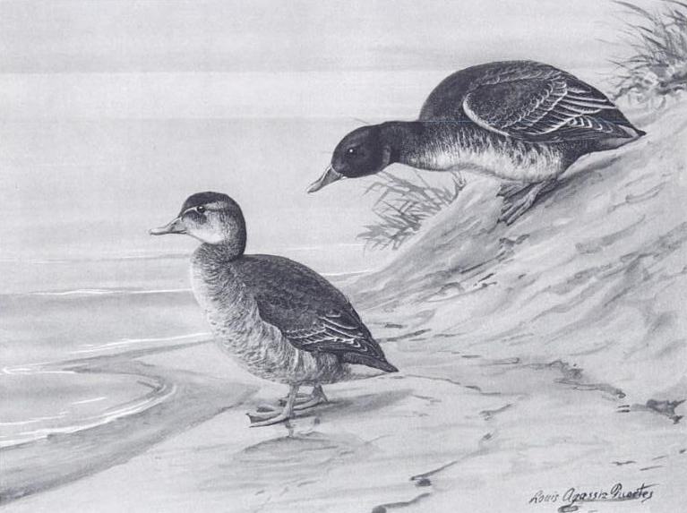 Black-headed Duck by John Charles Phillips (1876-1938) from book A Natural History of the Ducks.